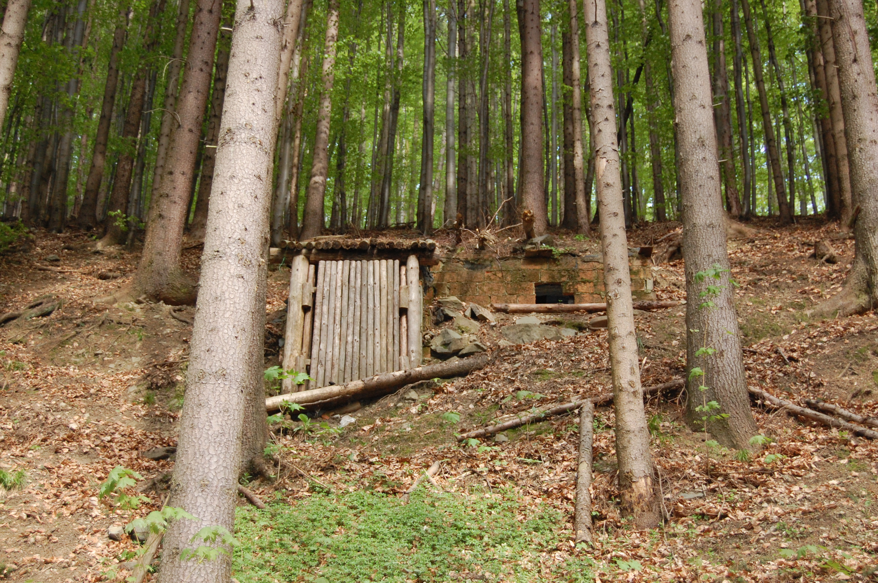 Partisans blockhouse between villages Lipová and Malé Hradisko, Prostějov district, Czech Republic